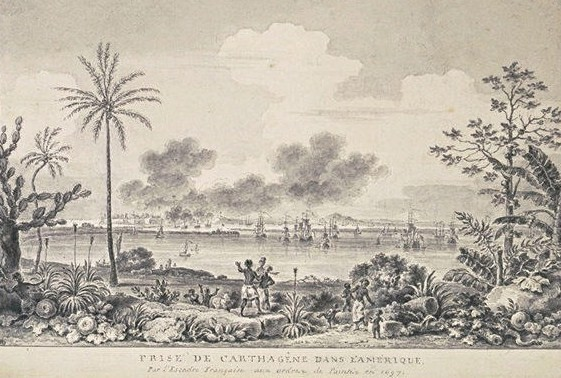 Taken Cartagena (South America) in 1697 by the French squadron of Sir Pointis. (Painting by Nicolas Ozanne, about 1790-1800).